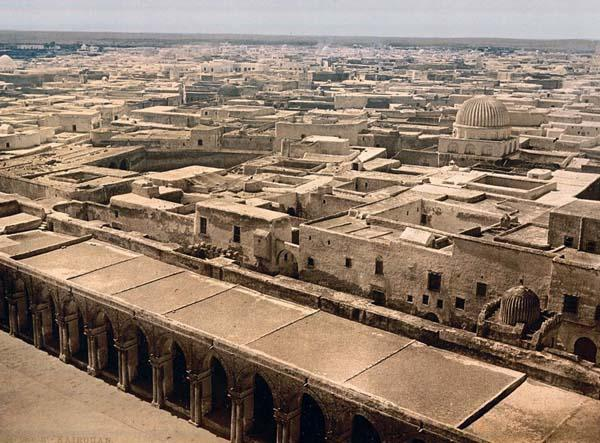 Photograph of Kairouan from the Minaret of the Great Mosque, Tunisia. This color photochrome print was taken in 1899 in Kairouan, Tunisia.